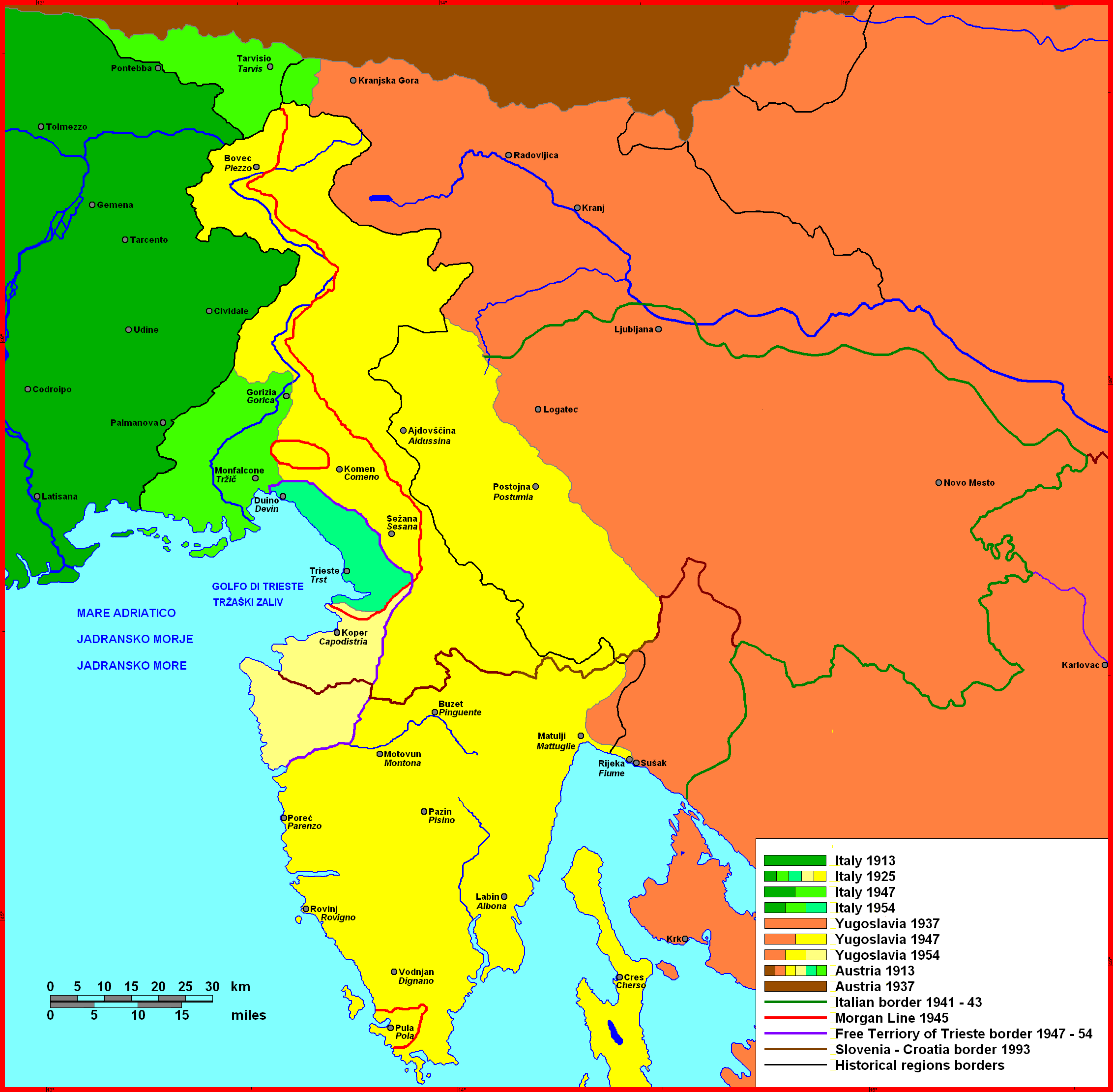 Istrian Littoral, map of 20th century history